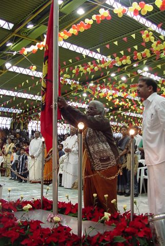 Mavirarnal 2002, Germany